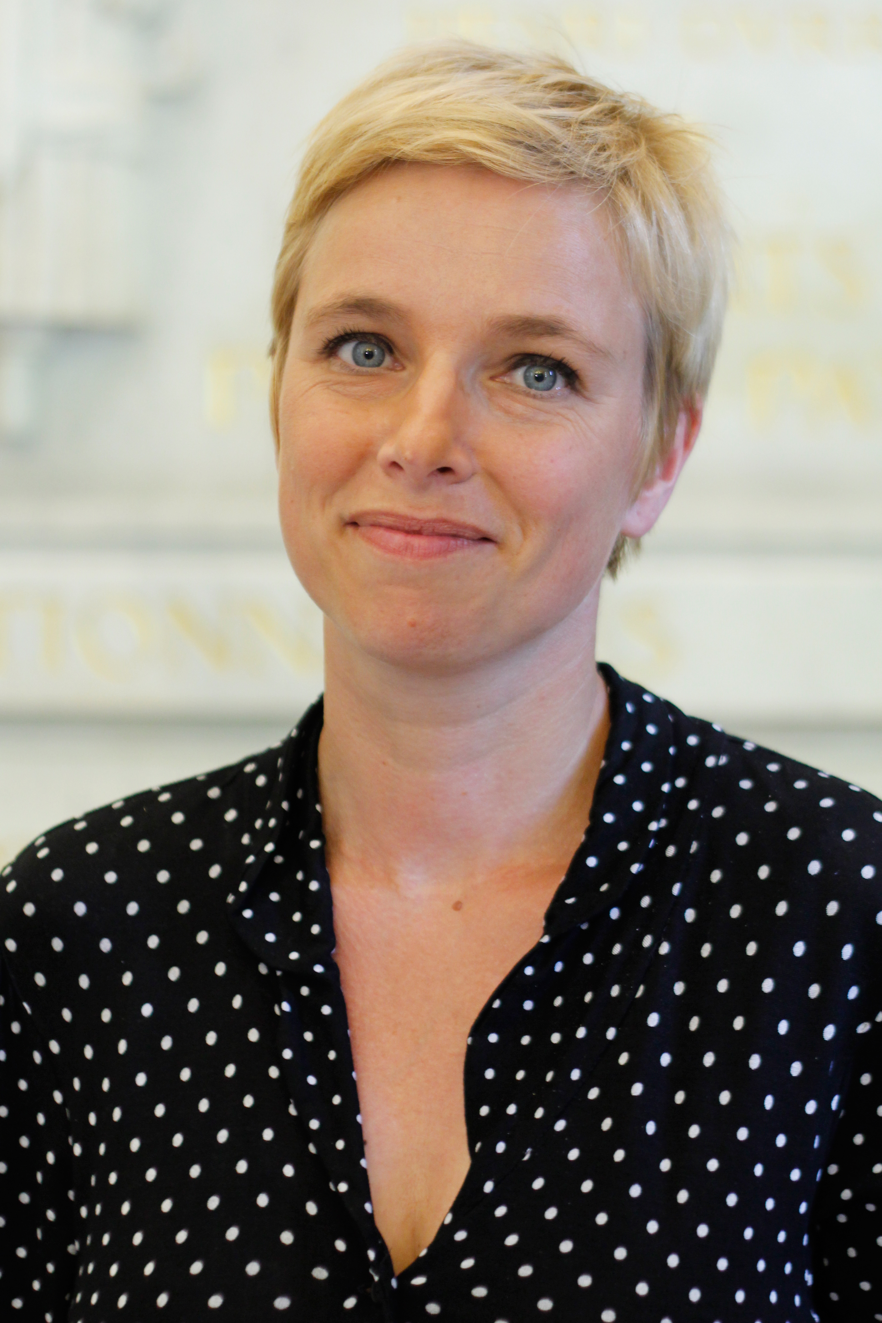 French Députy Clémentine Autain at the National Assembly, june, 19, 2017